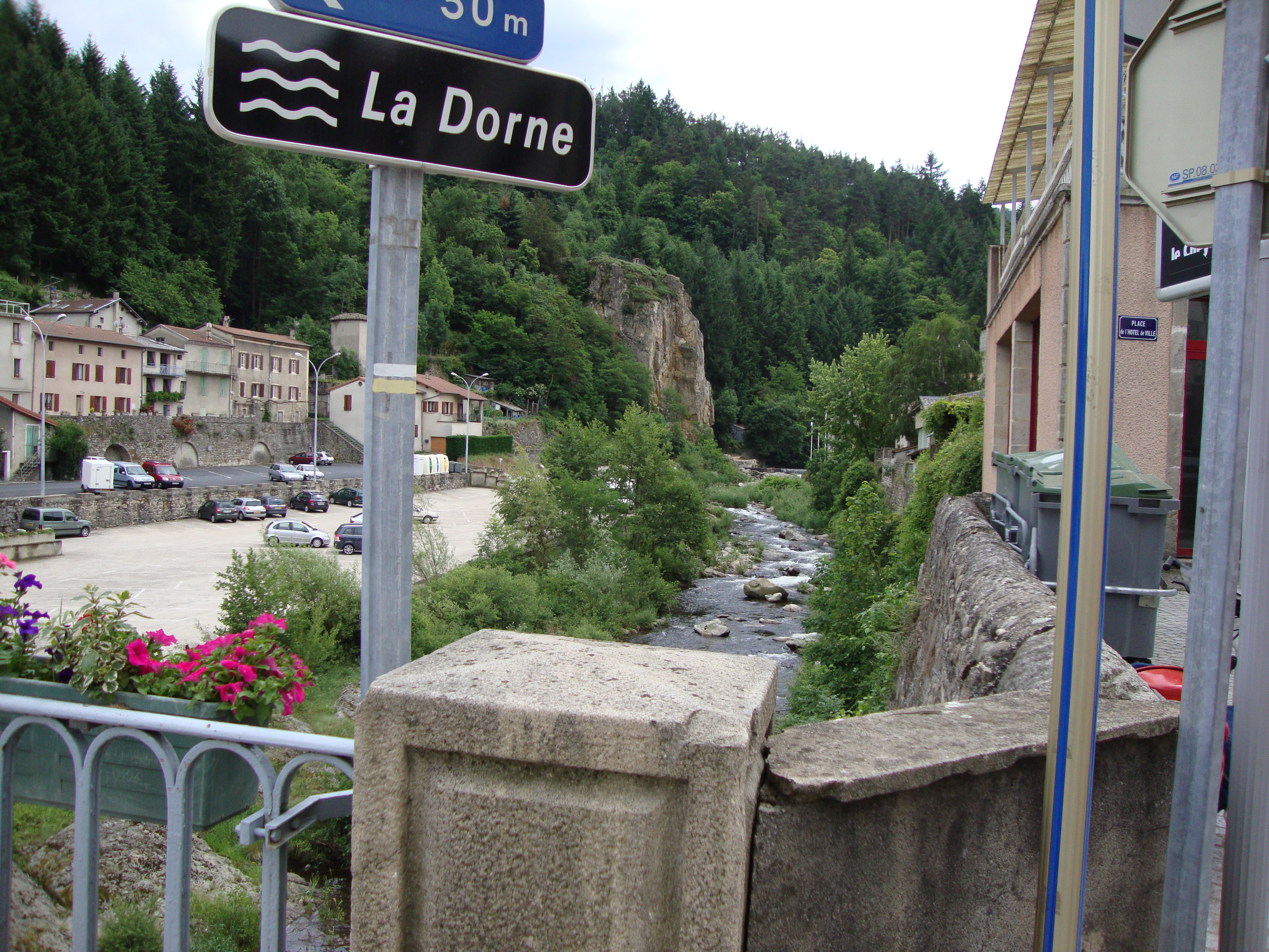 Le Cheylard (Ardèche, Fr) La Dorne